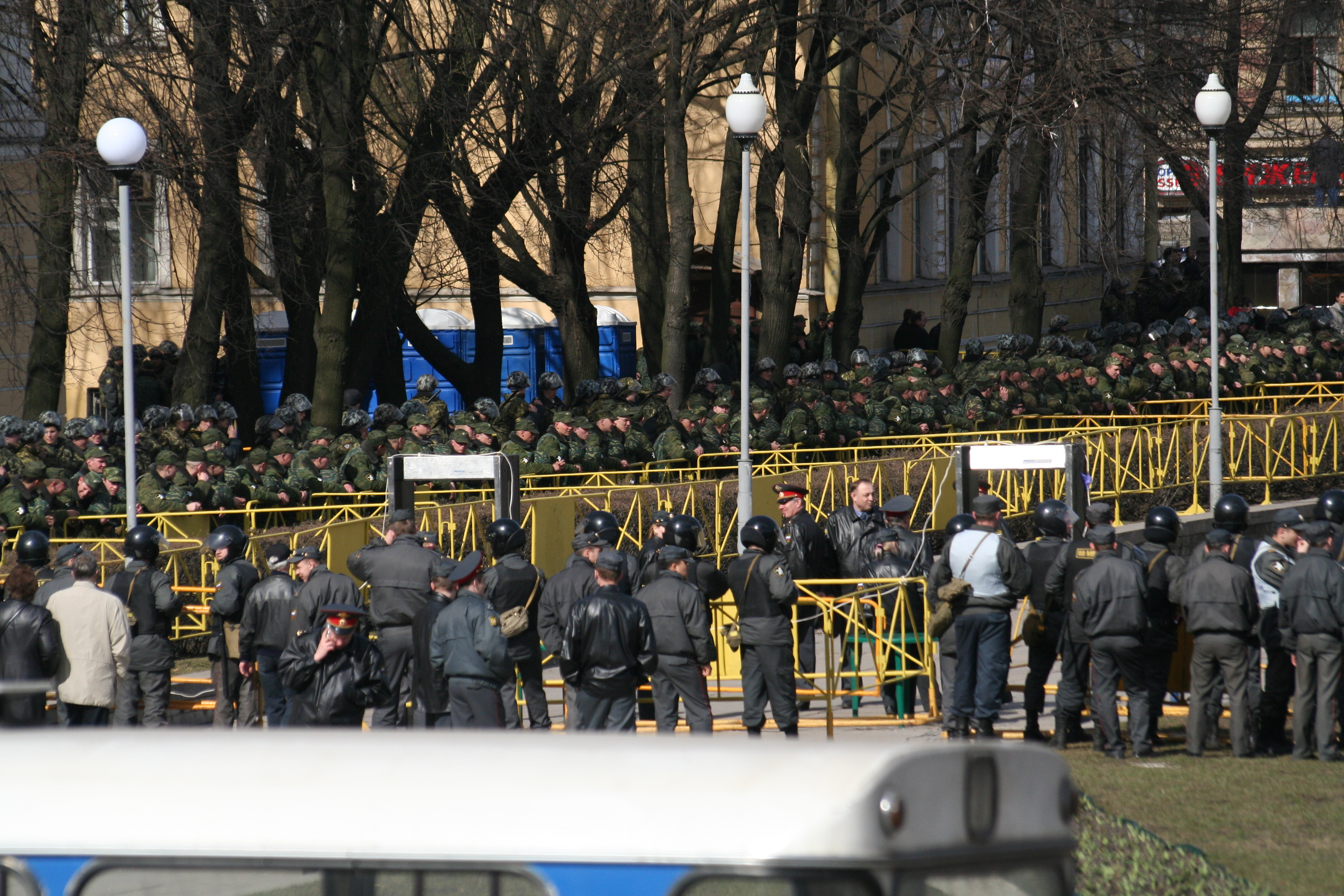 TYuZ, April 15, 2007, Marsh Nesoglasnyx, SPb, Russia; chain